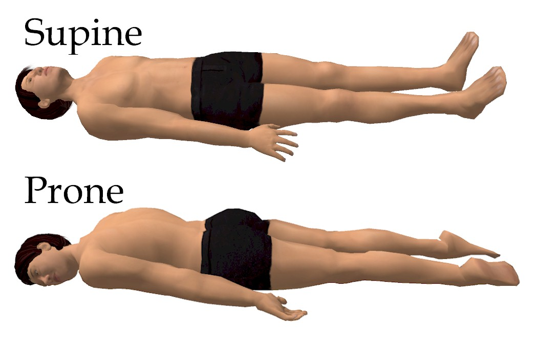 Supine and prone